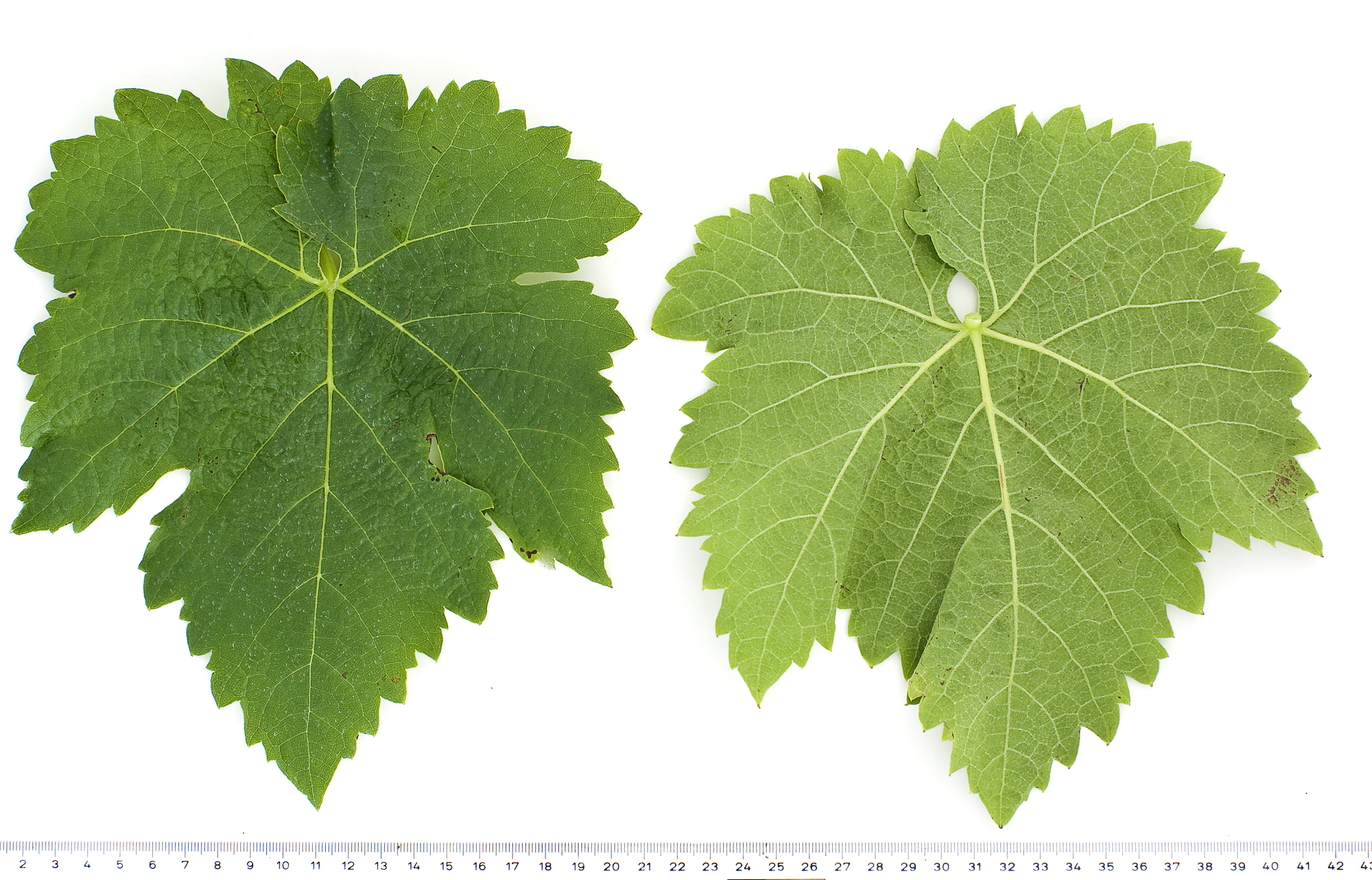 A leaf of the Italian grape variety Schiava grossa (upper and lower side)